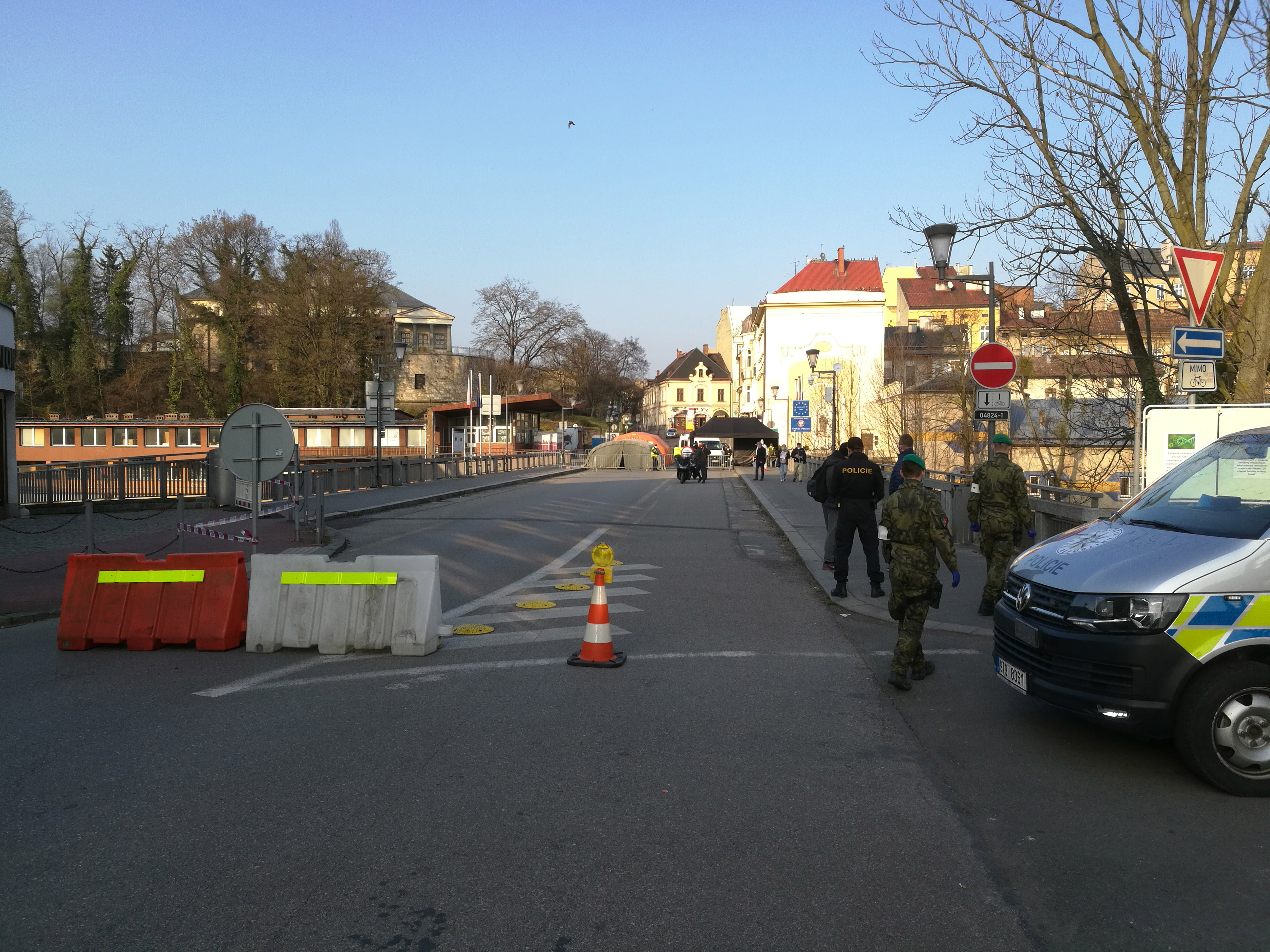 Closed border crossing between the Czech Republic and Poland on the Friendship Bridge in Český Těšín / Cieszyn during the COVID-19 pandemic